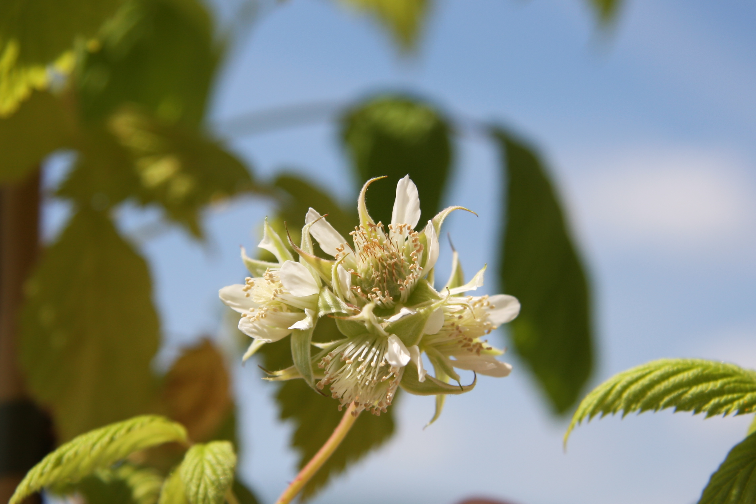 The blossom of the raspberry